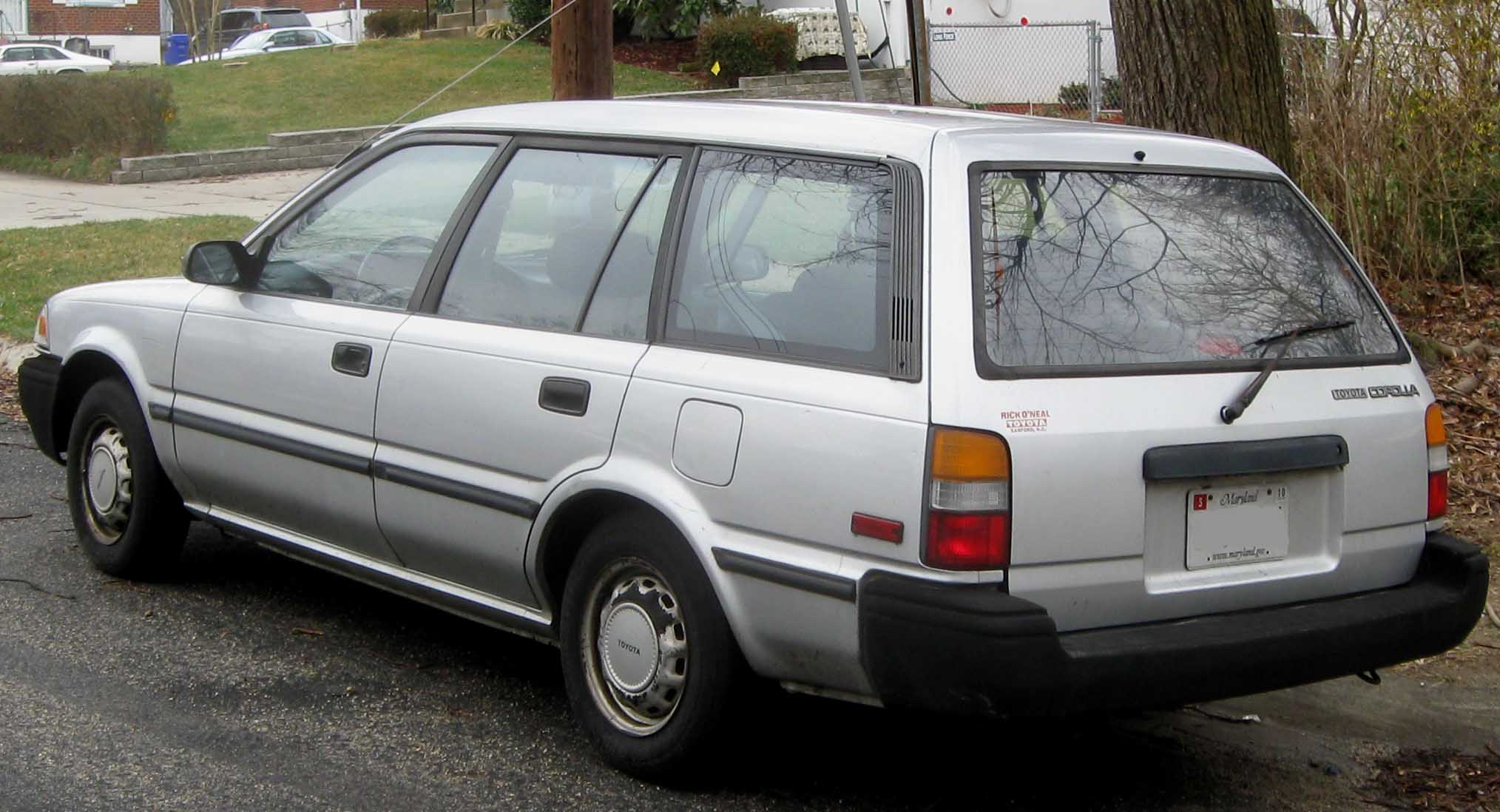 1988-1992 Toyota Corolla photographed in Rockville, Maryland, USA.